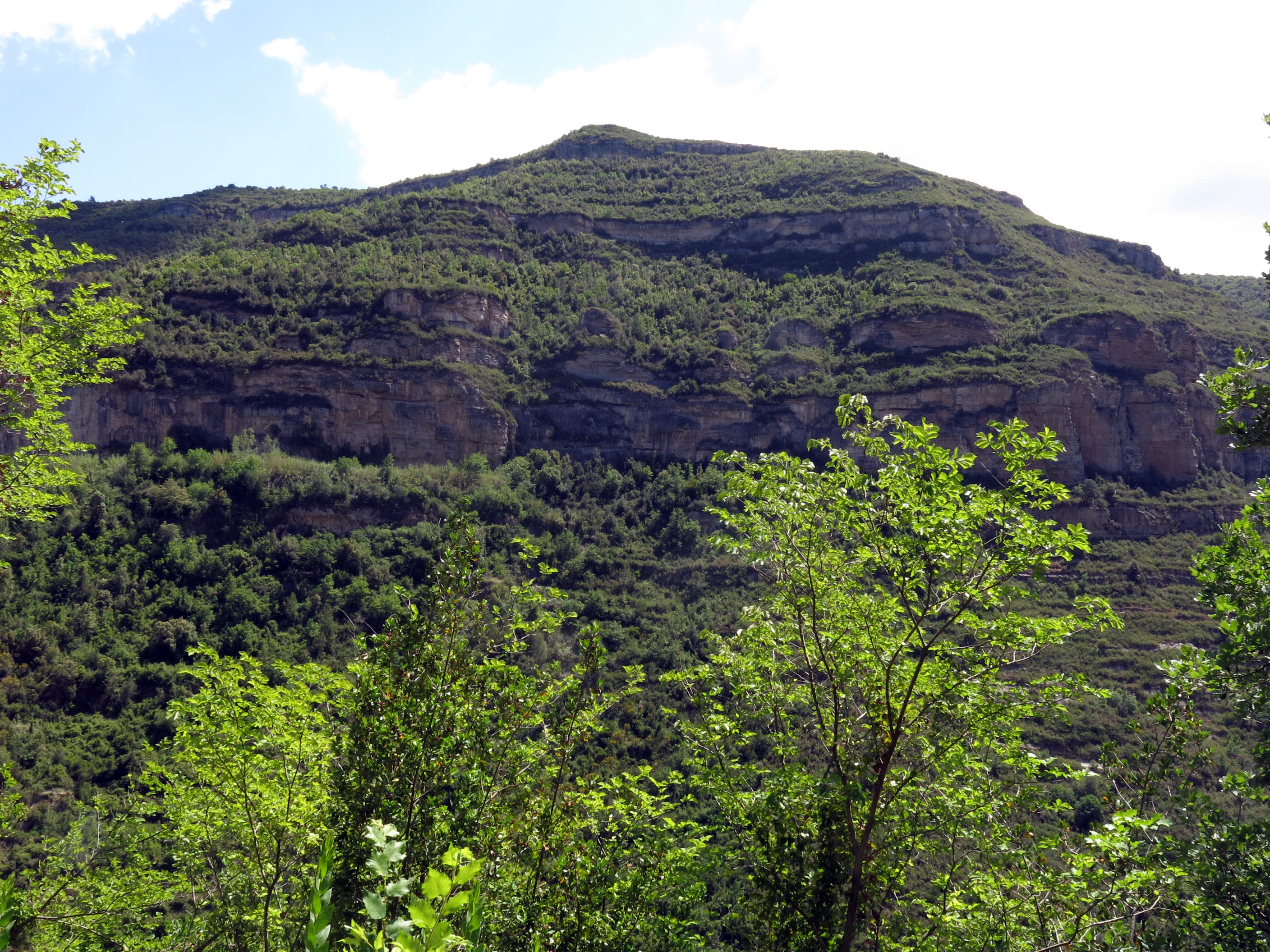 This is a a photo of a natural area in Catalonia, Spain, with id: ES510097